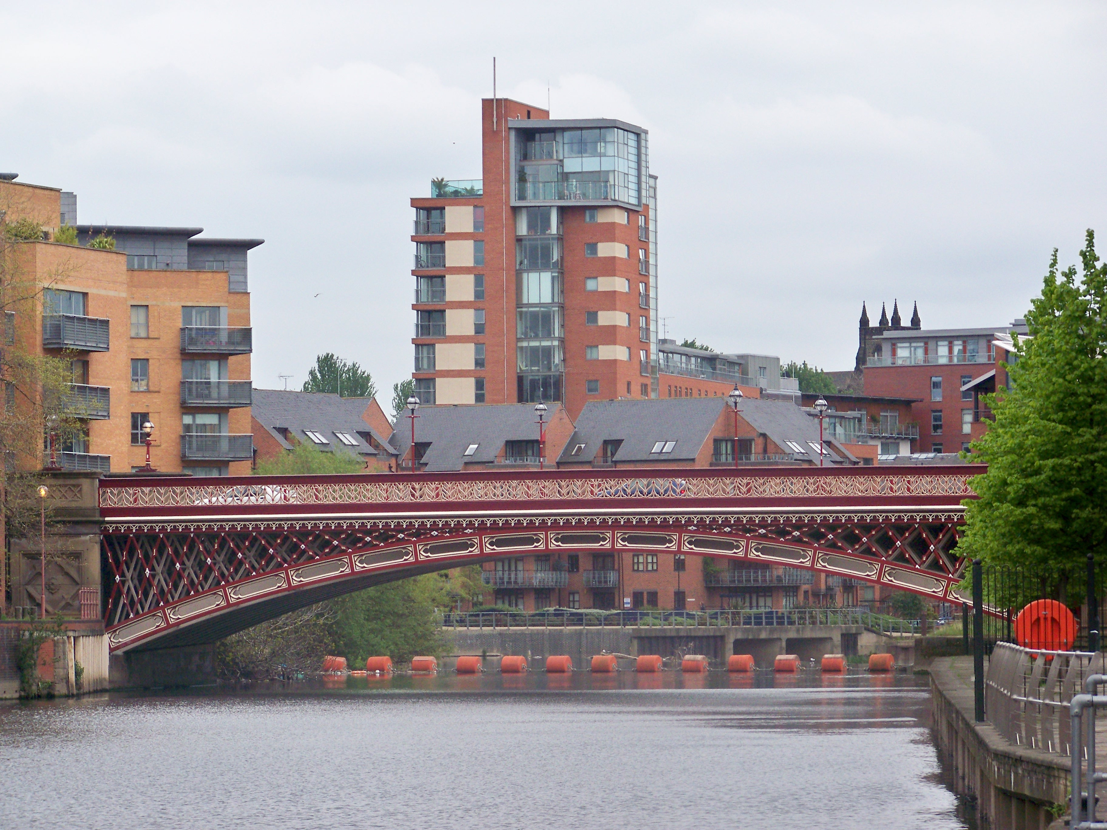 Crown Point Bridge as seen from the Centenary footbridge in Leeds, West Yorkshire. The bridge caries Crown Point Road over the River Aire. Taken on the afternoon of Monday the 10th of May 2010.